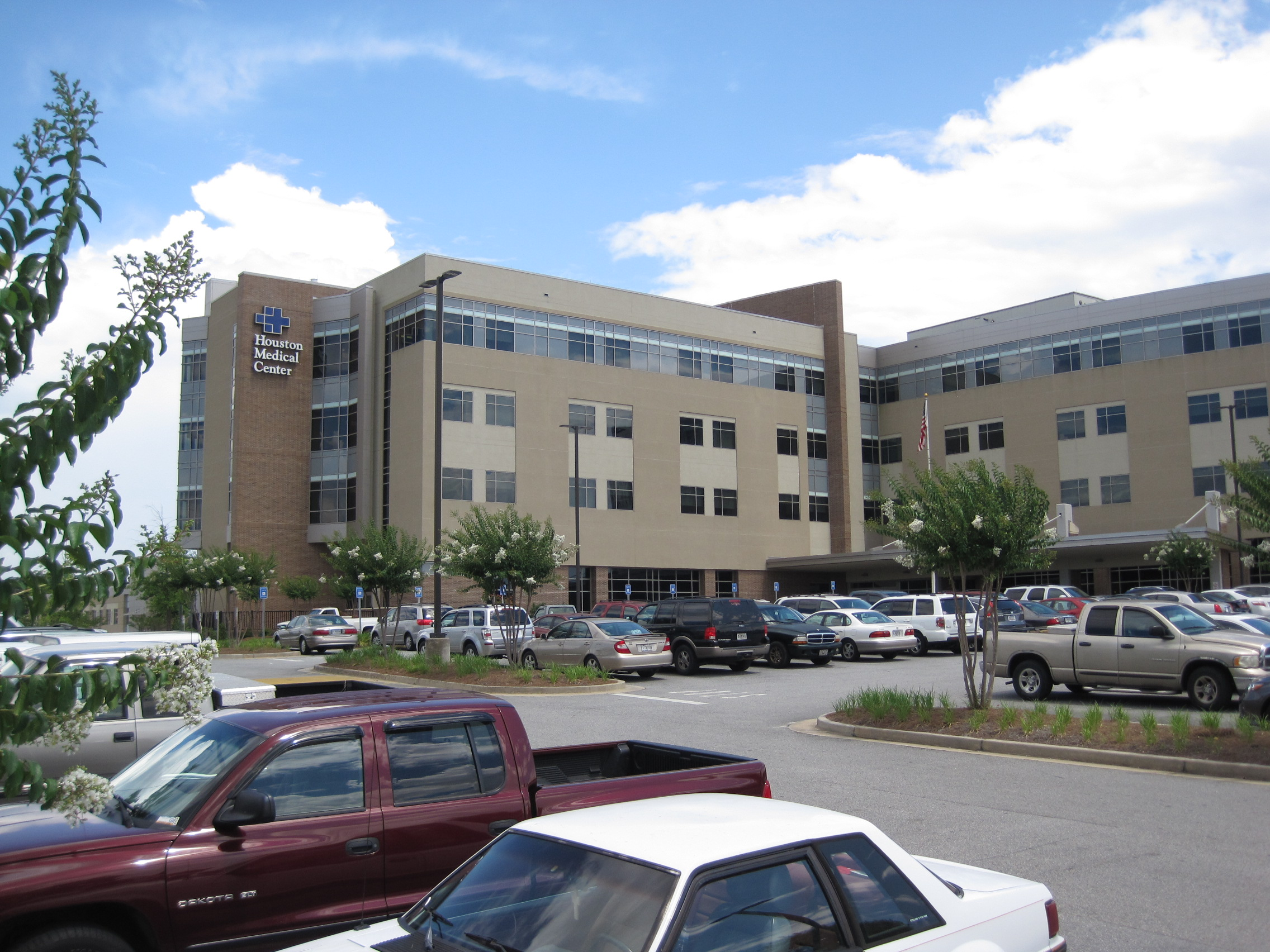 Houston Medical Center on Watson Boulevard